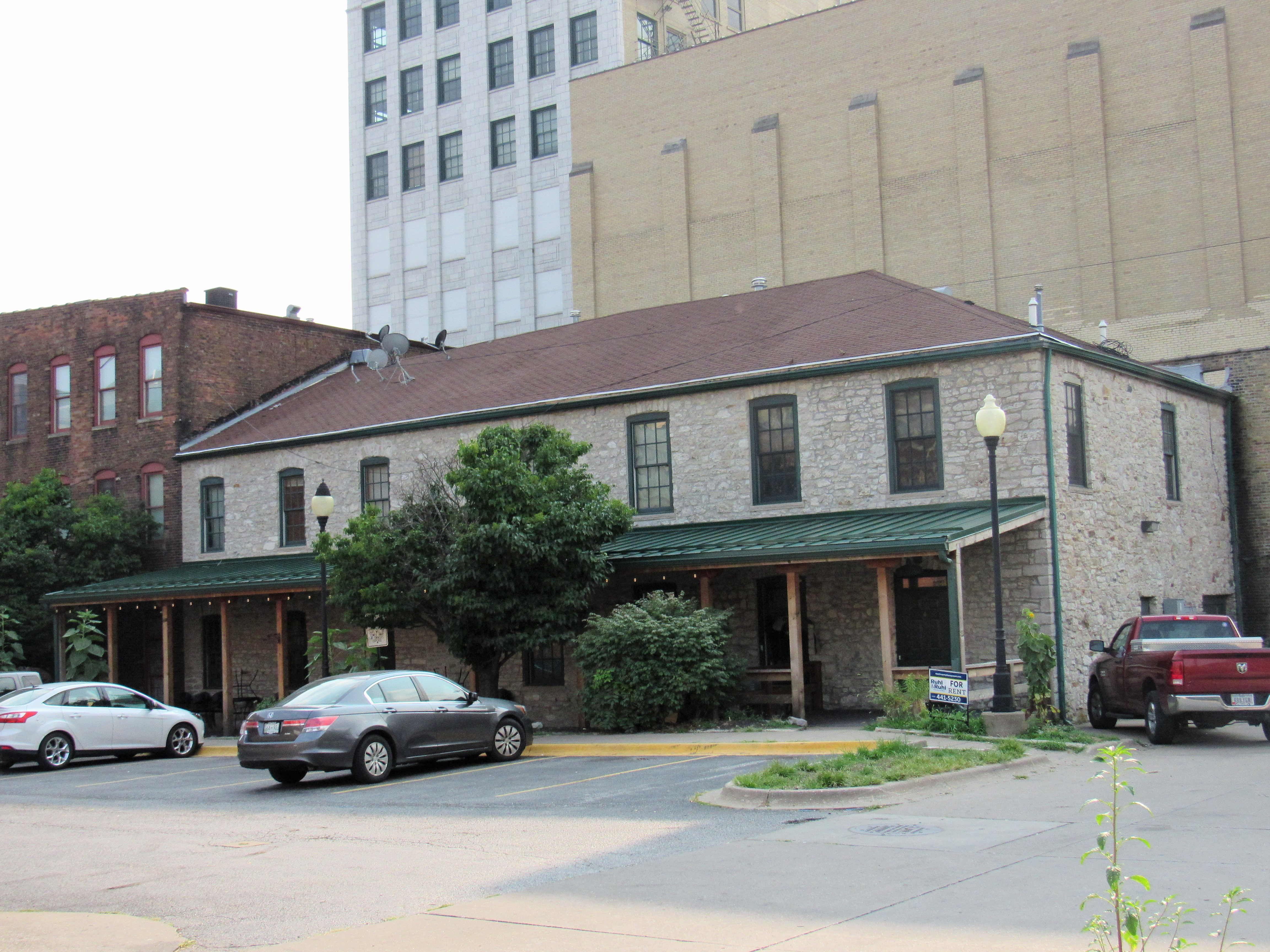 The older stone portion of the Woeber Carriage Works in Downtown Davenport, Iowa.